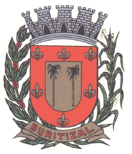 Coat of Arms of the city of Buritizal, São Paulo state, Brazil.